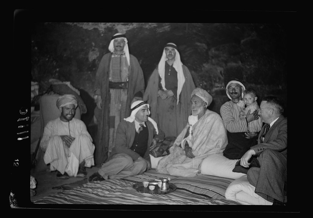 Al Dhahiriya-1938